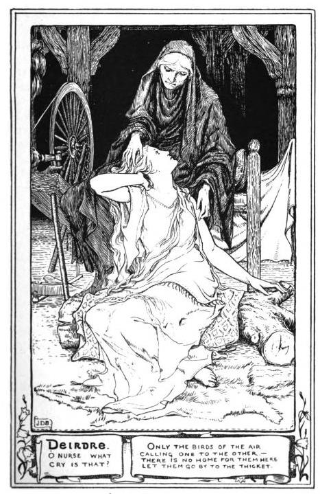 An illustration of the fairy tale The Story of Deirdre created by John D. Batten for Joseph Jacob's collection Celtic Fairy Tales.